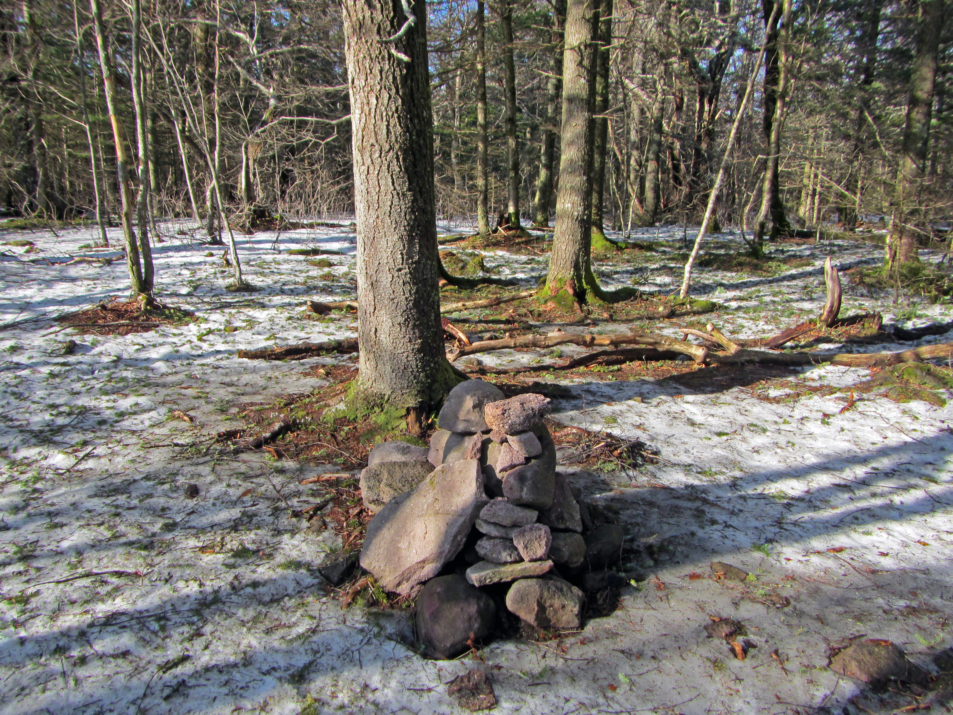 Cairn marking the summit of Eagle Mountain in New York's Catskills, a short distance from the Pine Hill–West Branch Trail, in wintertime. Lacking any sort of view and (for now) much in the way of the boreal forest found elsewhere in the Catskills at this elevation (3,610 feet (1,100 m)), it is considered by most members of the Catskill Mountain 3500 Club to be the most uninteresting summit of any the range's High Peaks they must climb to become members.